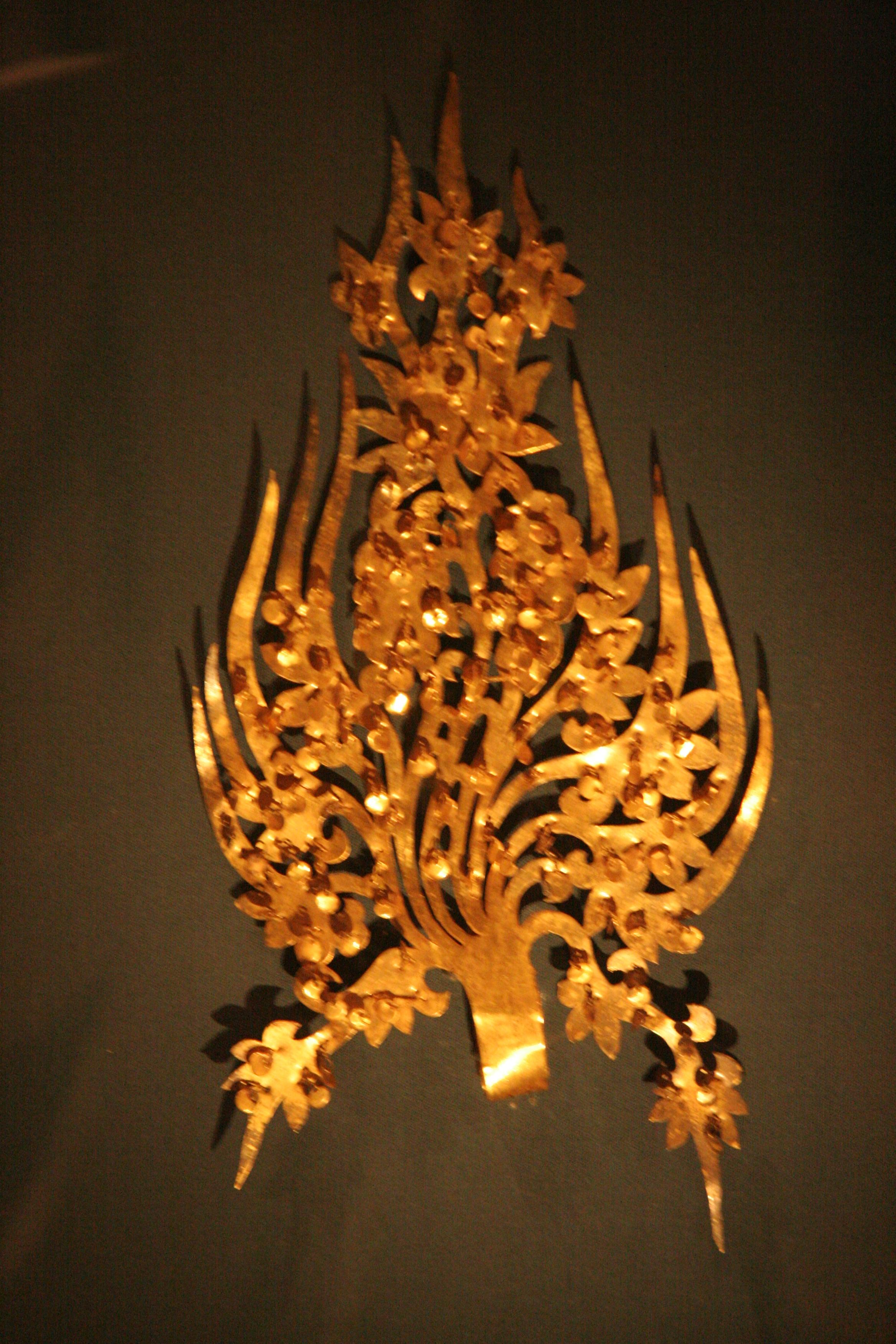 A close up of one of the two gold diadem ornaments found in King Muryeong's tomb which were for the king. They were worn on a silk cap afixed to the sides. The pair are also designated as a National Treasure of Korea.